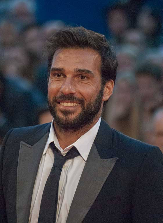 Red Carpet